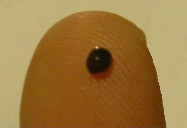 Single Caviar Egg (Prunier Caviar - non-wild Siberian Sturgeon).